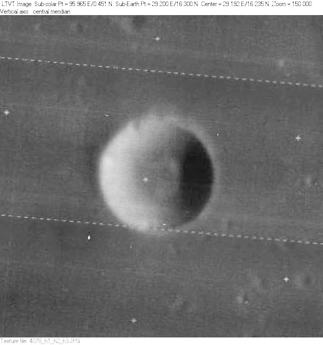 Crater Beketov on the LRO image LO-IV-078H